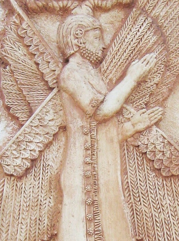 Cyrus II of Persia.